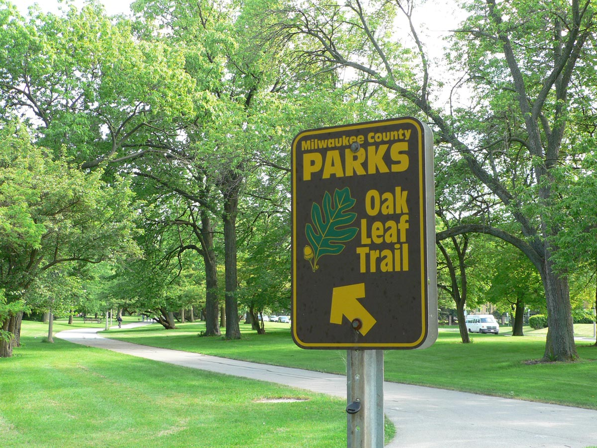 Copyright © 2006 Sulfur An Oak Leaf Trail sign in Lake Park, showing a portion of the paved 106 mile multi-use recreational trail which encircles Milwaukee County, Wisconsin.